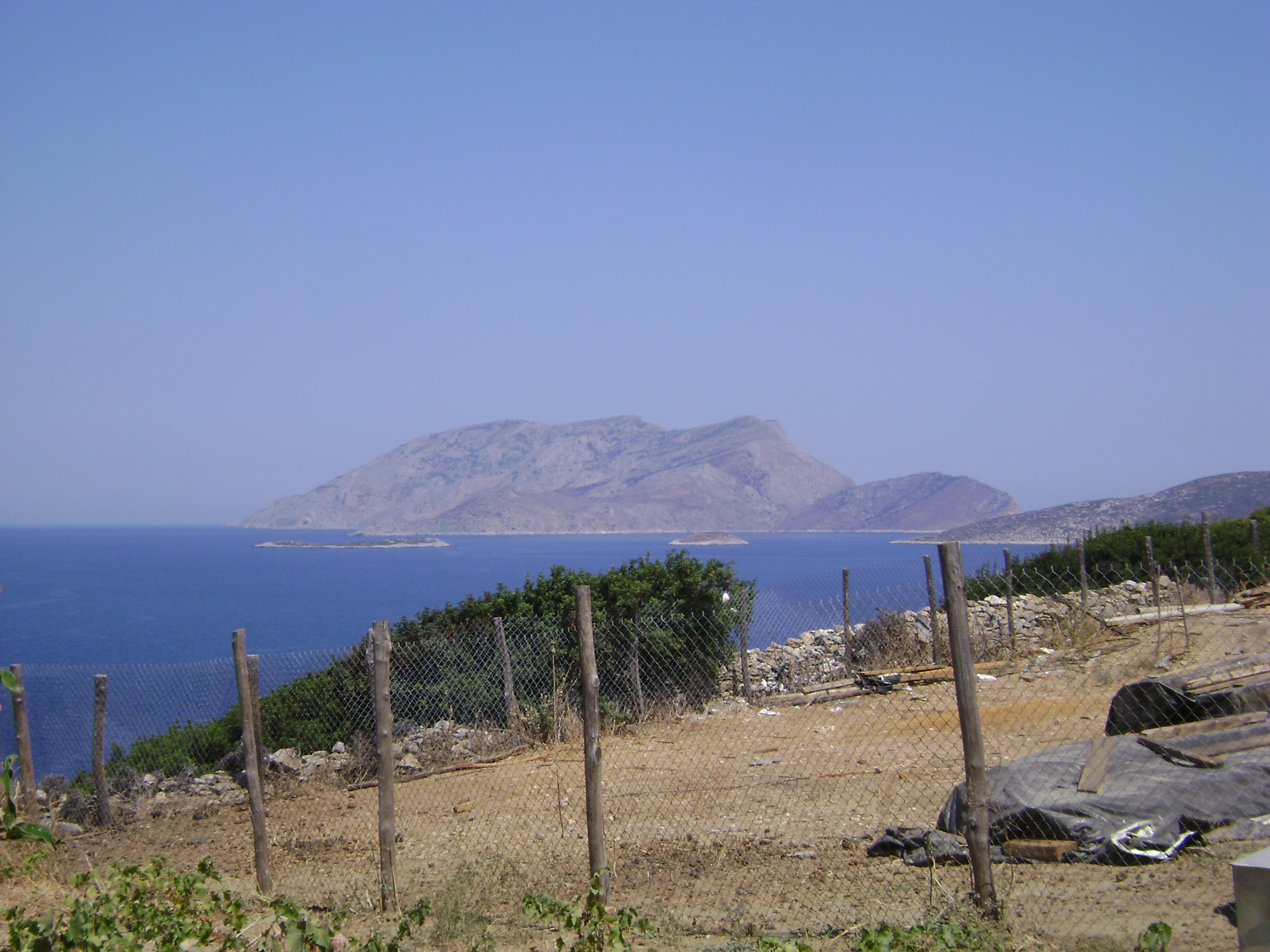 This is a photography of Natura 2000 protected area with ID GR1430005